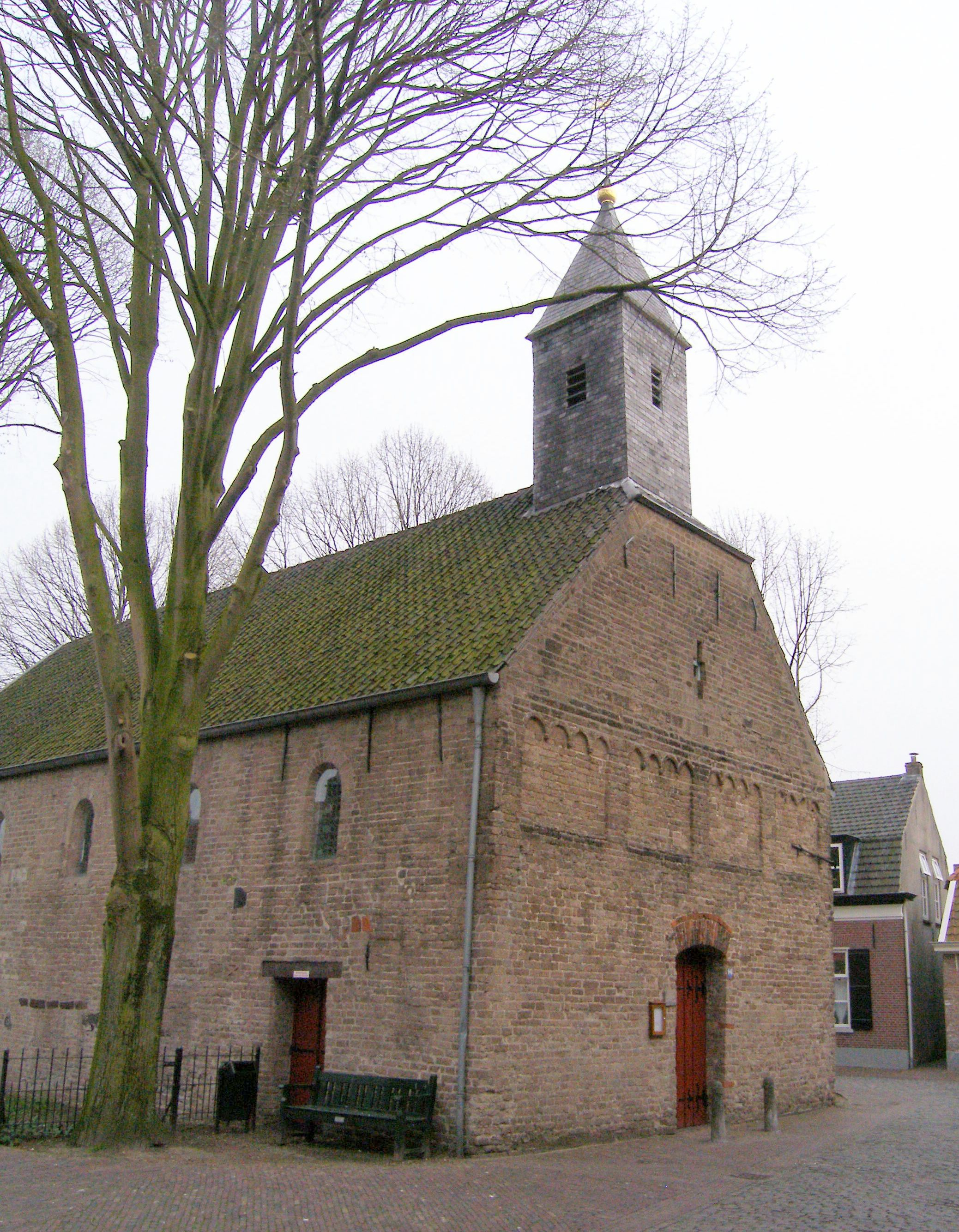 Mariakerk in Oirschot, the Netherlands